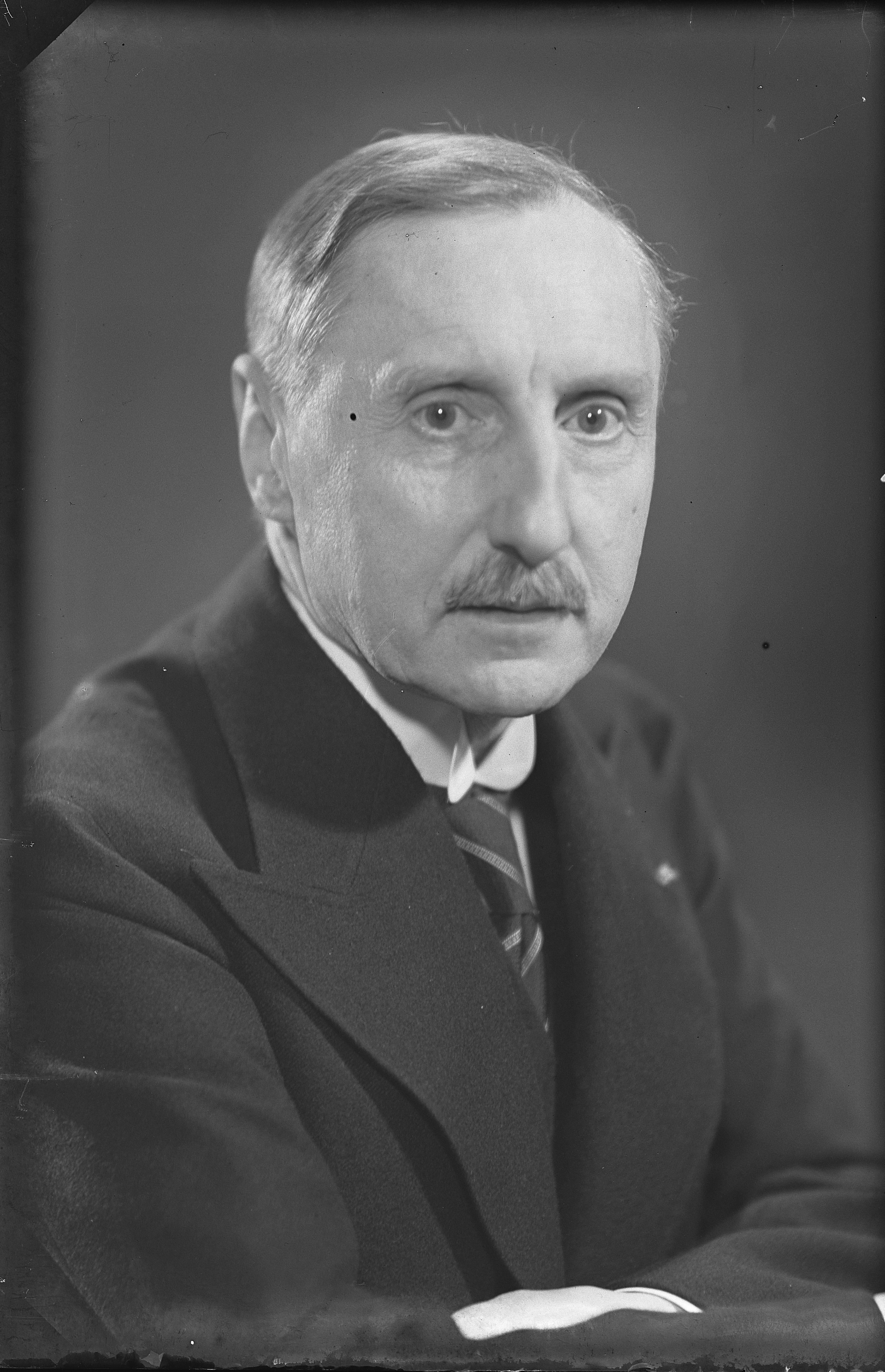 Photograph of jhr. mr. Jan Willem Hendrik Rutgers van Rozenburg by Jacob Merkelbach (1877-1942)